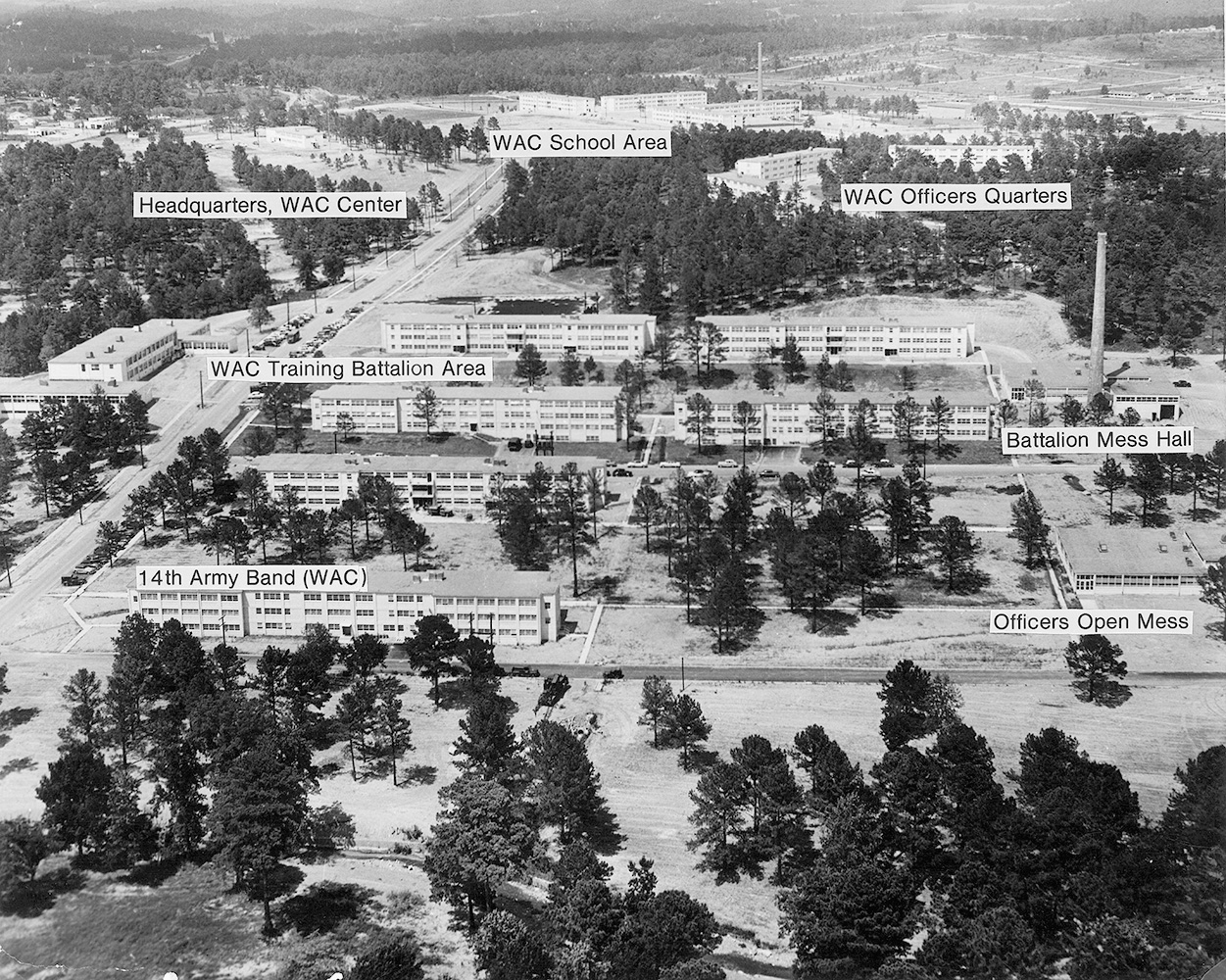 U.S. Army WAC Training Center, Fort McClellan, Alabama, 1954